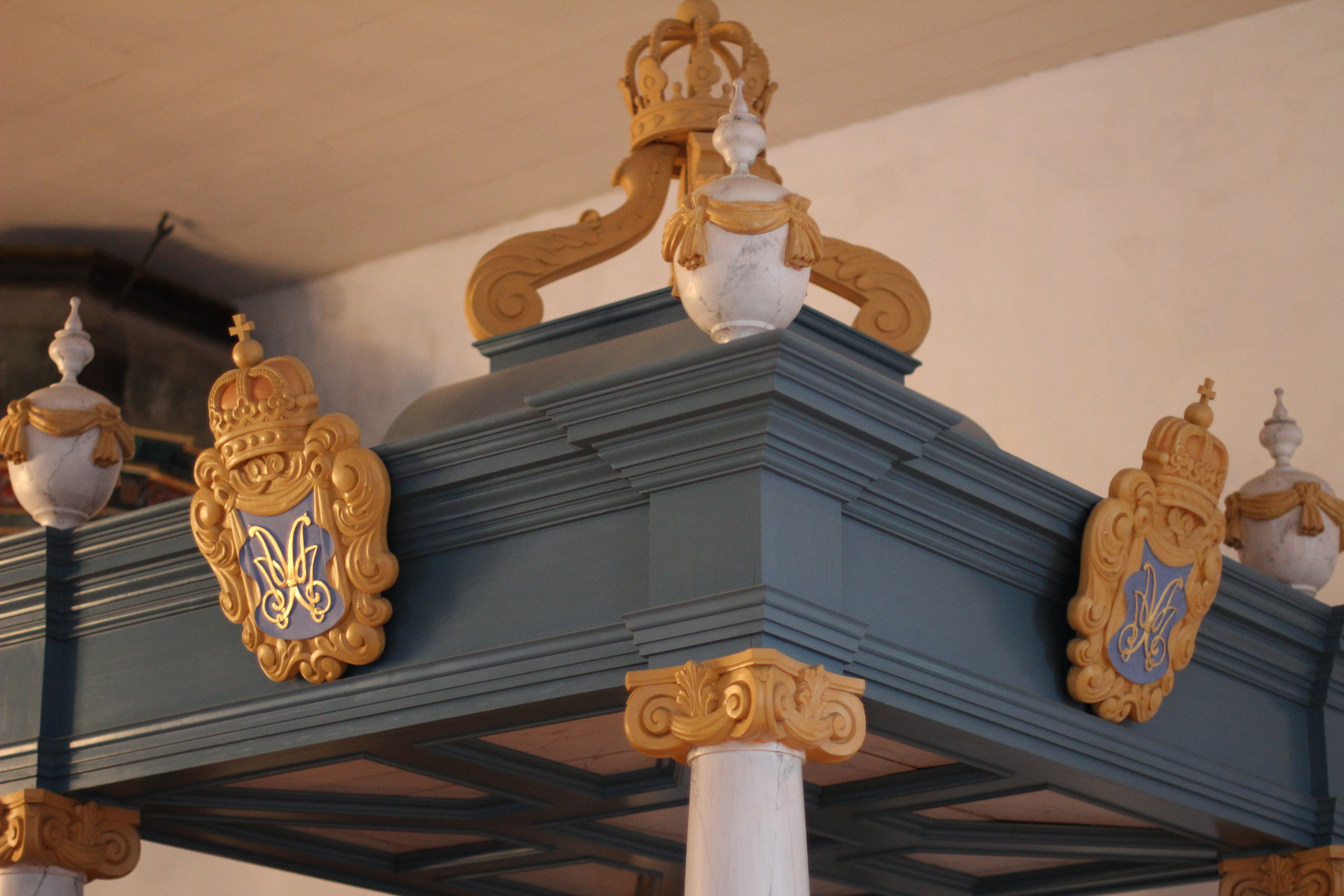 Top of Queen's loge, Turku castle church, Turku, Finland. - Made in 1775 for visit of Sophia Magdalena of Denmark, Queen of Sweden. Reconstruction (ca. 1960), original destroyed by fire in 1941.